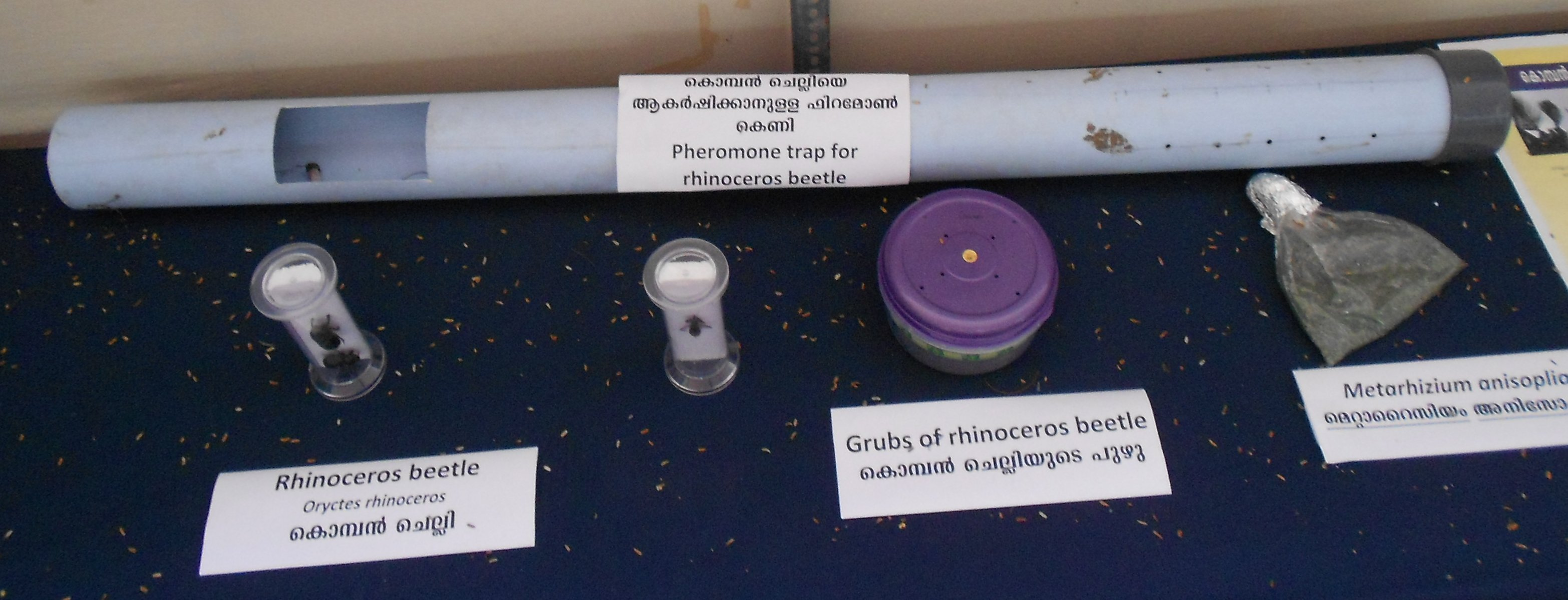 pheremone trap used for bio-control of Oryctes Rhinoceros